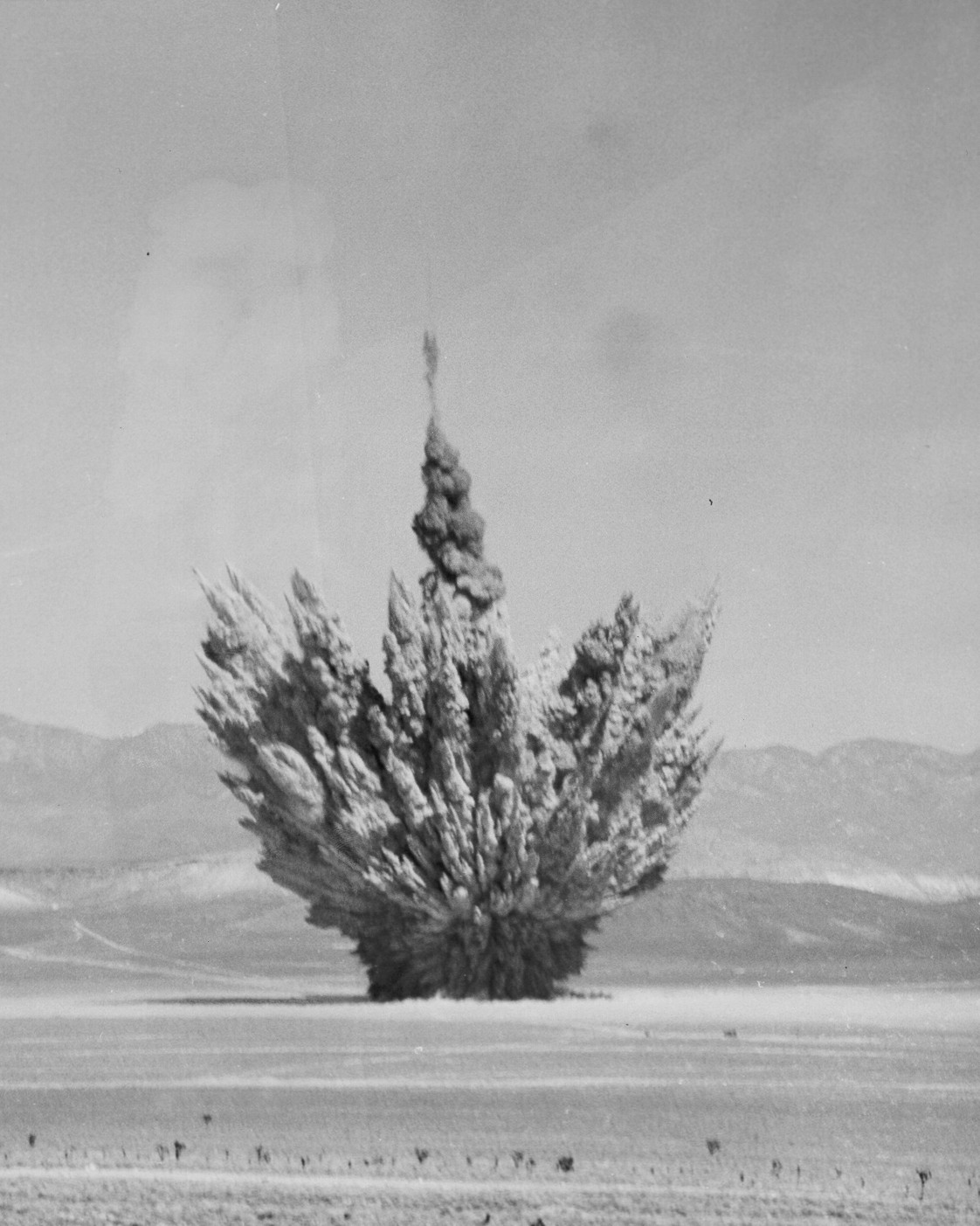 The March 23, 1955 sub-surface atomic test, seventh in the current Teapot Series at Nevada Test Site.